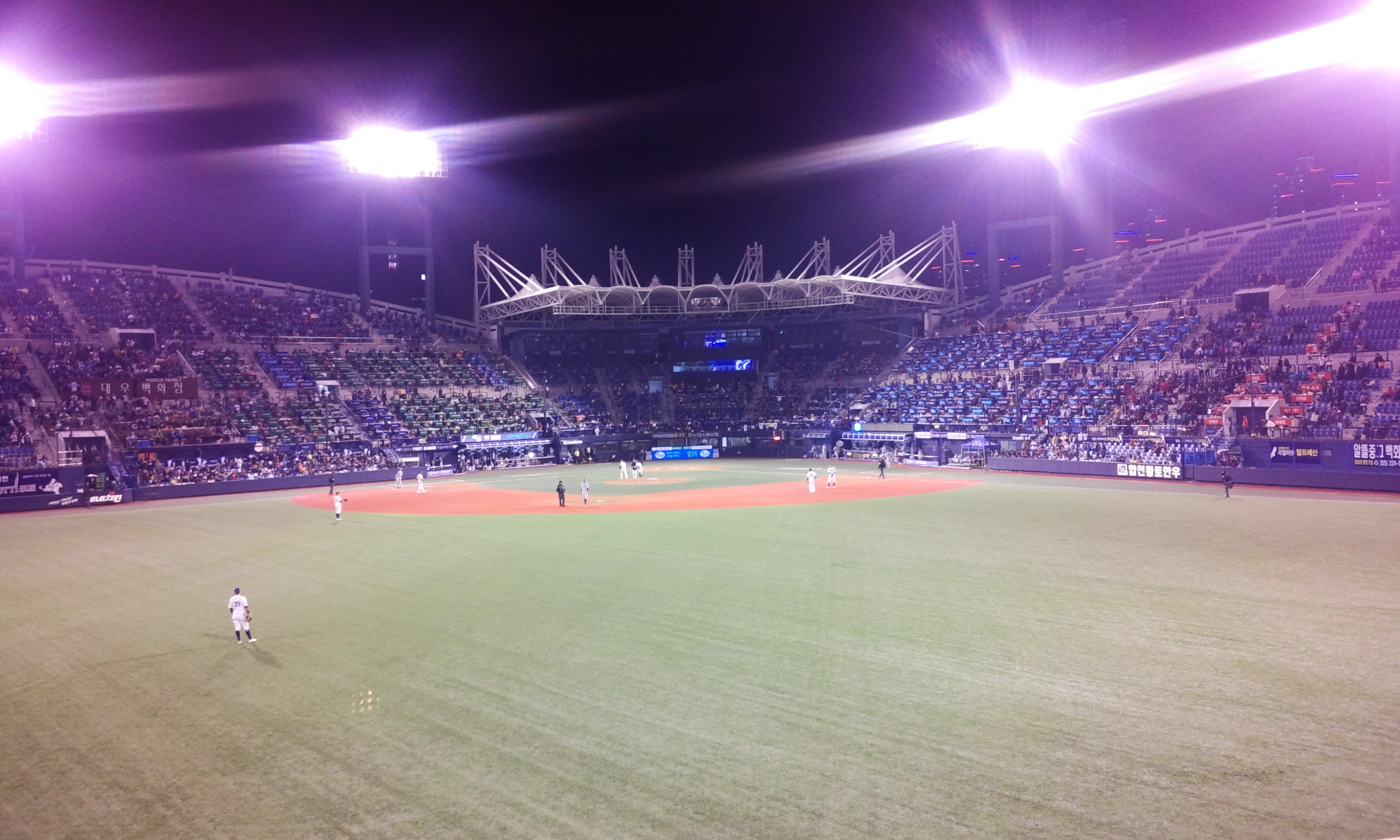 This picture was taken during the KBO League semi play off match, NC Dinos versus LG Twins in Masan baseball stadium on October 22nd, 2014. LG Twins defeated NC Dinos.